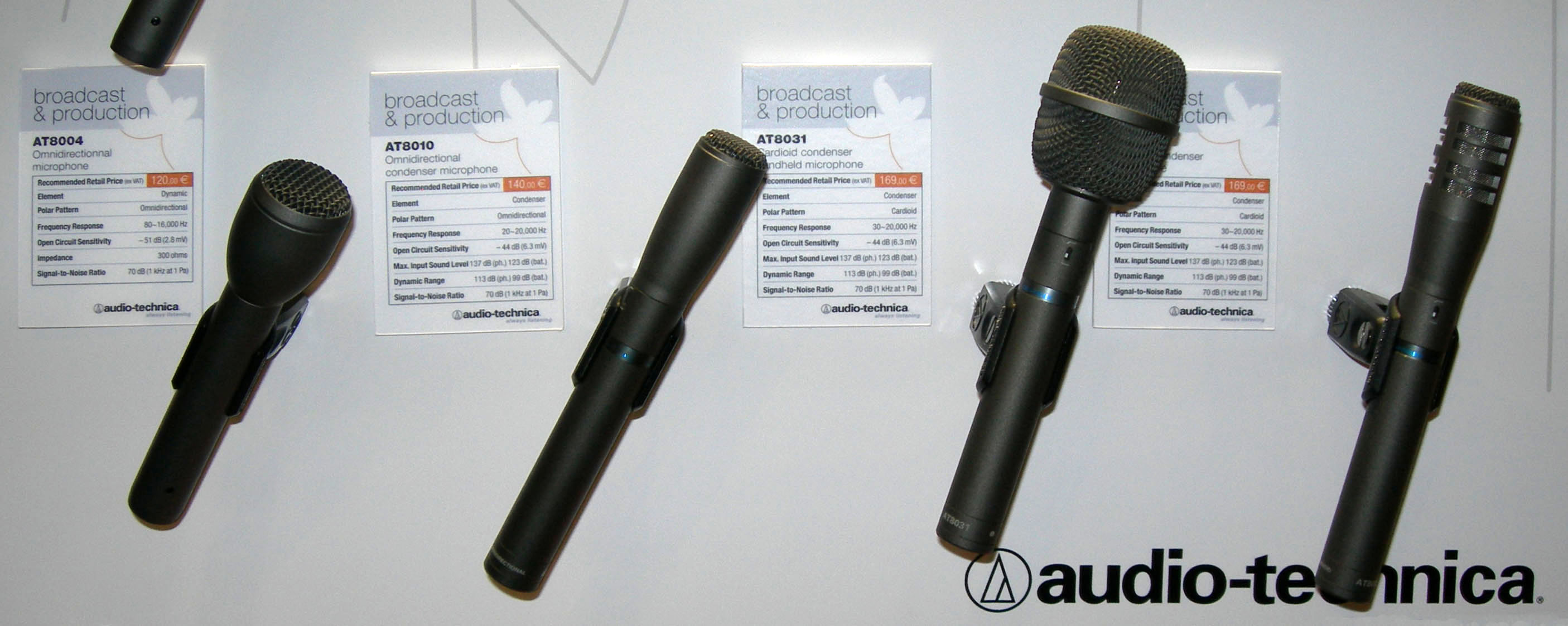 Audio-Technica broadcast and production microphones: AT8004, AT8010, AT8031, AT8033; IBC 2008, Amsterdam